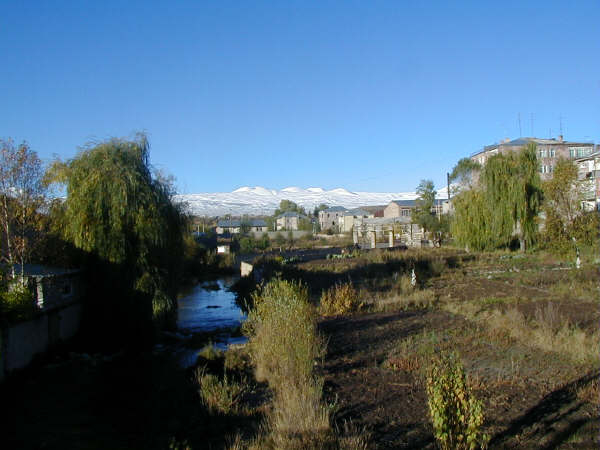 Gavar town countryside